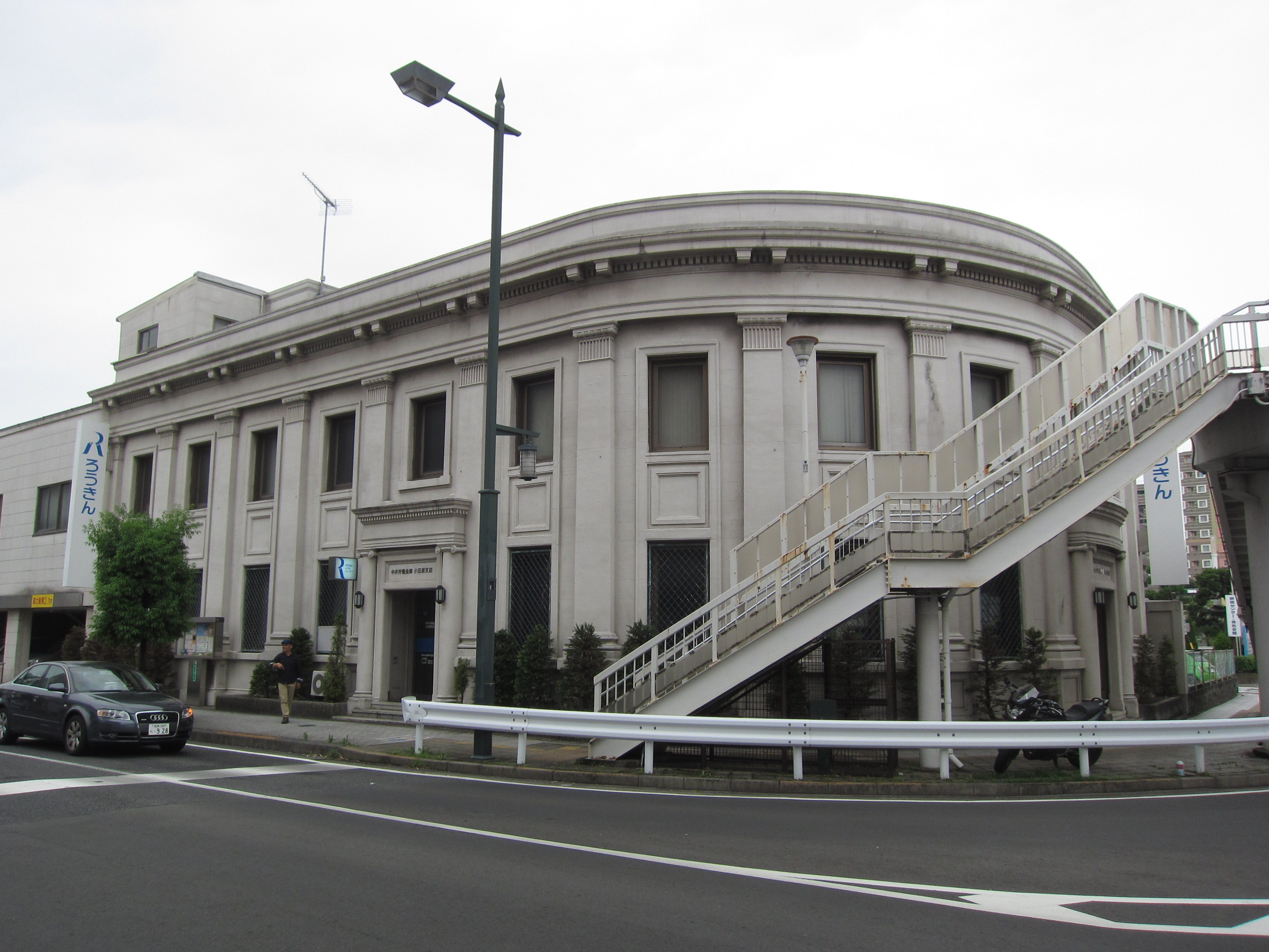 Chuo Workers Credit Union Odawara Branch